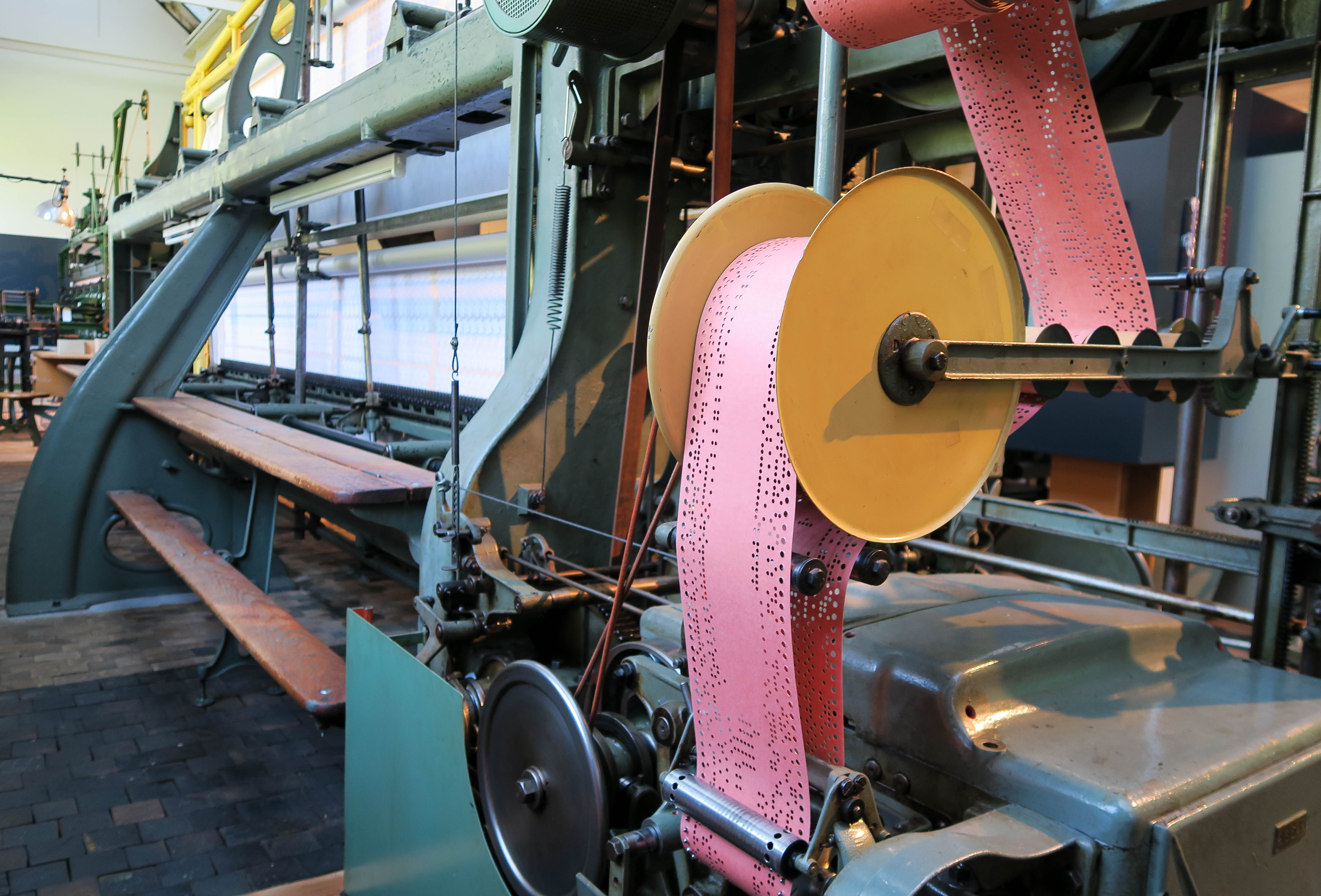 Back side of early 20th century Saurer embroidery machine with punch card reader. This is a Saurer machine which uses a Saurer specific punch card format. The card reader was added about 1912 and replaced the manually operated pantograph.